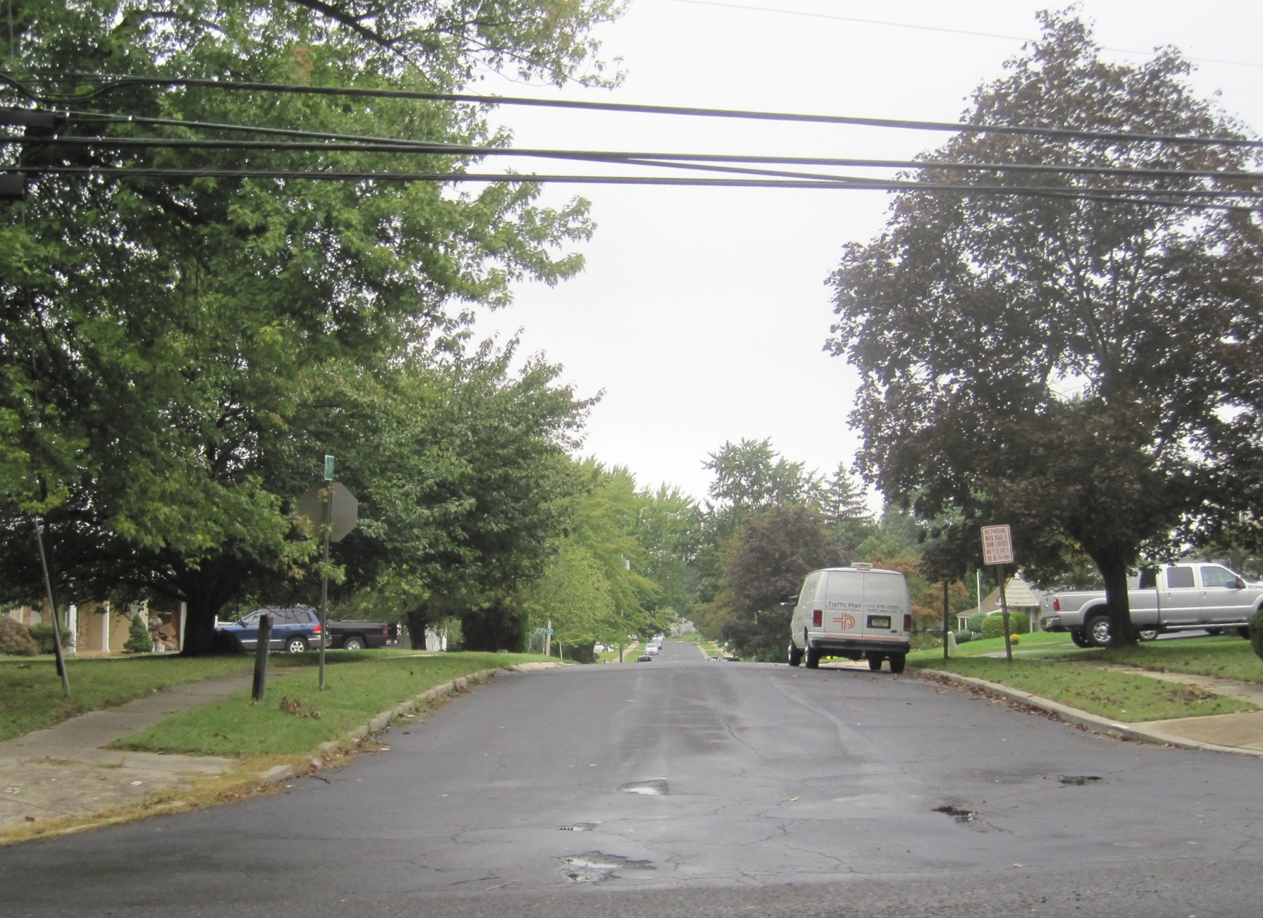 Photograph showing Strathmore, New Jersey, a census-designated place within Aberdeen Township. Photo taken looking north along Ivy Way from Van Brackle Road.